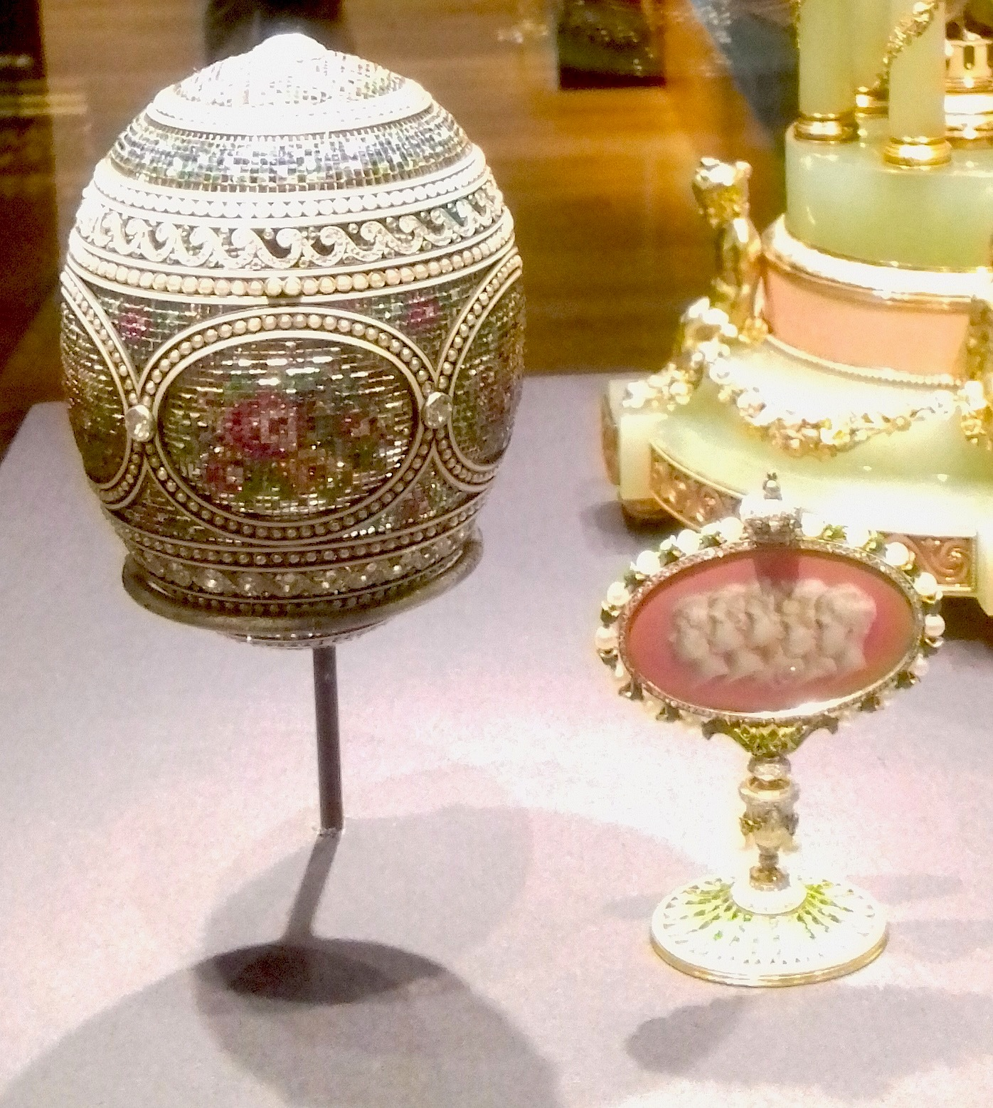 Photo of the 1914 Mosaic egg by Fabergé taken at the exhibition "Russia, Royalty & the Romanovs", The Queen's Gallery, Palace of Holyroodhouse, Edinburgh, Scotland.